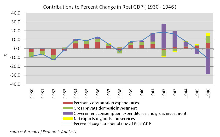 Contributions_to_Percent_Change_in_Real_GDP_(the_US_1930-1946)